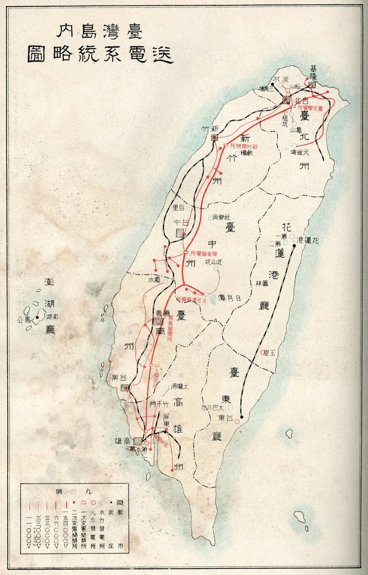 Electric Transmission System Map, Taiwan, c. 1934